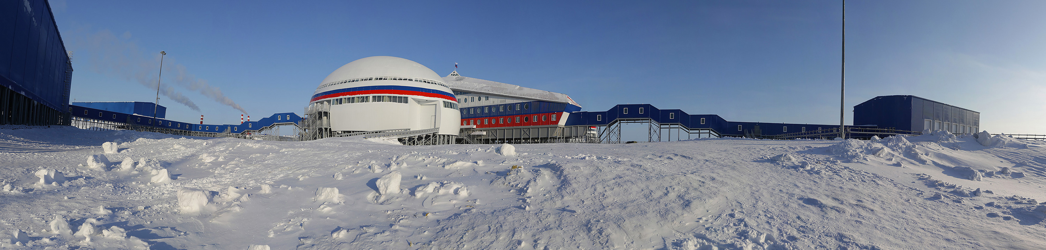 Arkticheskiy trilistnik (2017)